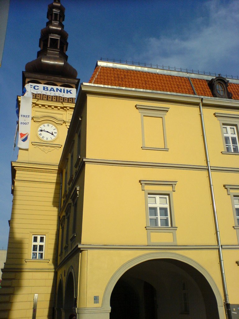 Old townhall, Ostrava.